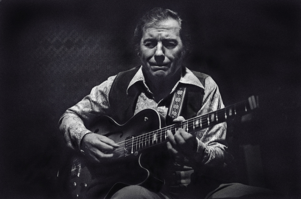 Chuck Wayne 1975